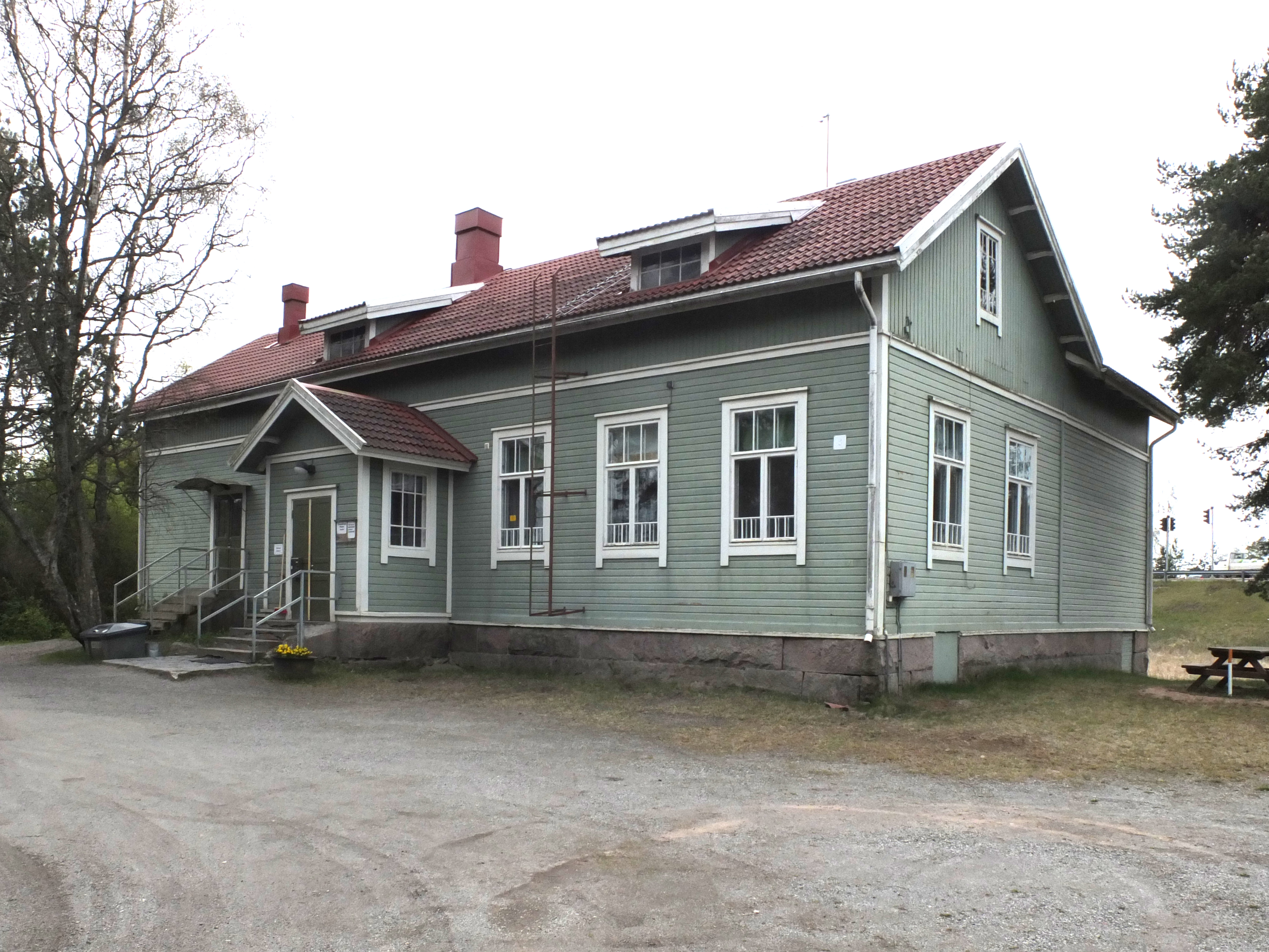 Old elementary school in Kuninkoja, Raisio, Finland, now used as a youth centre. May 2014.